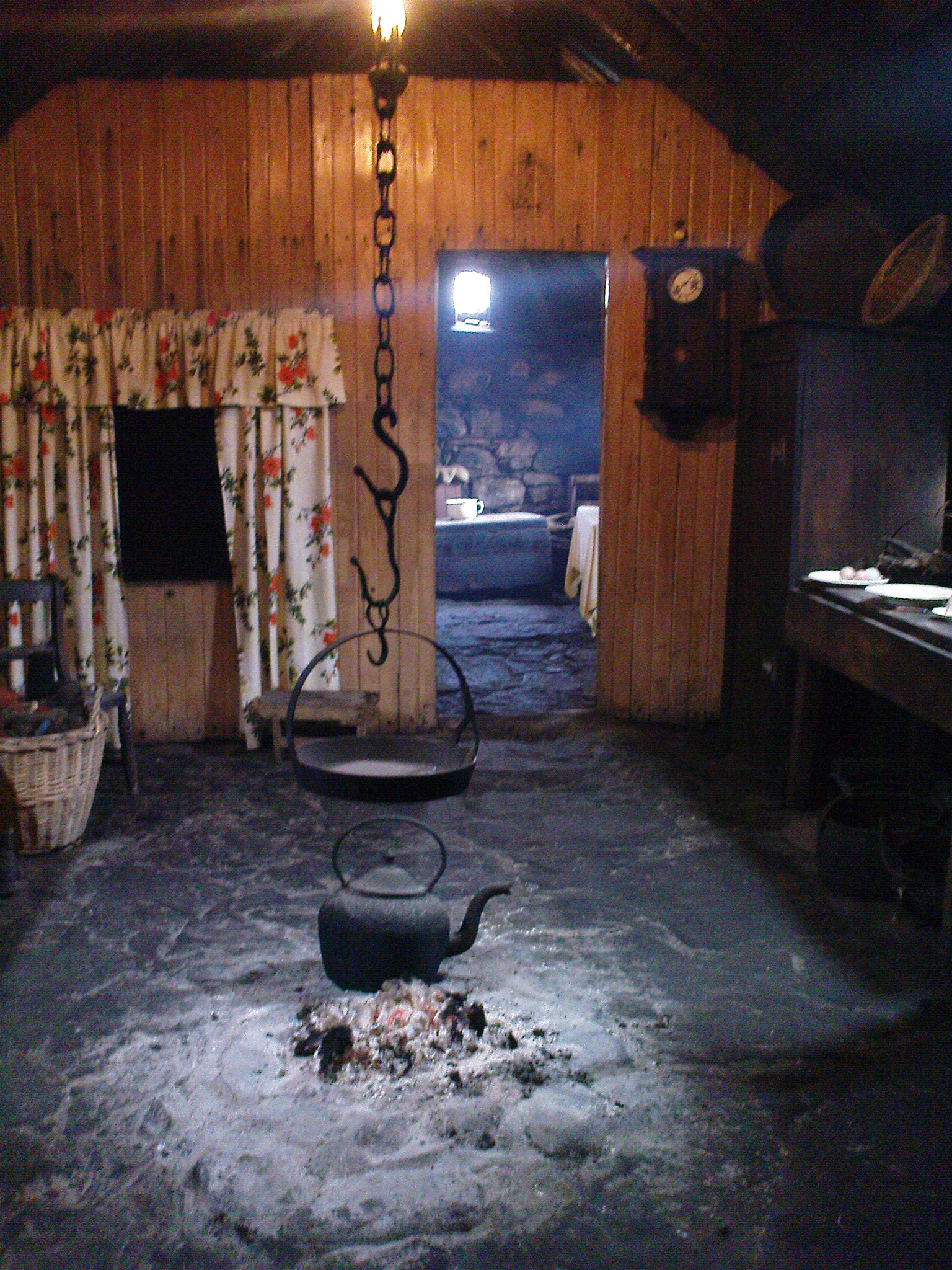 Interior of Arnol Blackhouse, Isle of Lewis, Outer Hebrides